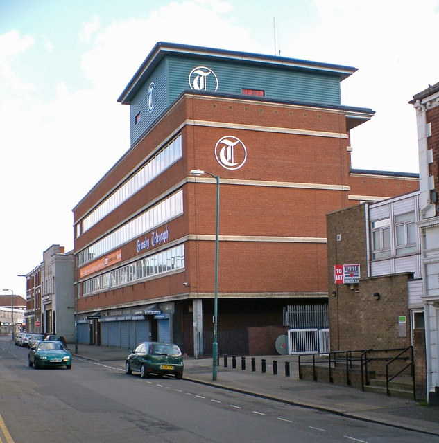 The Grimsby Telegraph Offices of the Grimsby Telegraph on Cleethorpe Road.